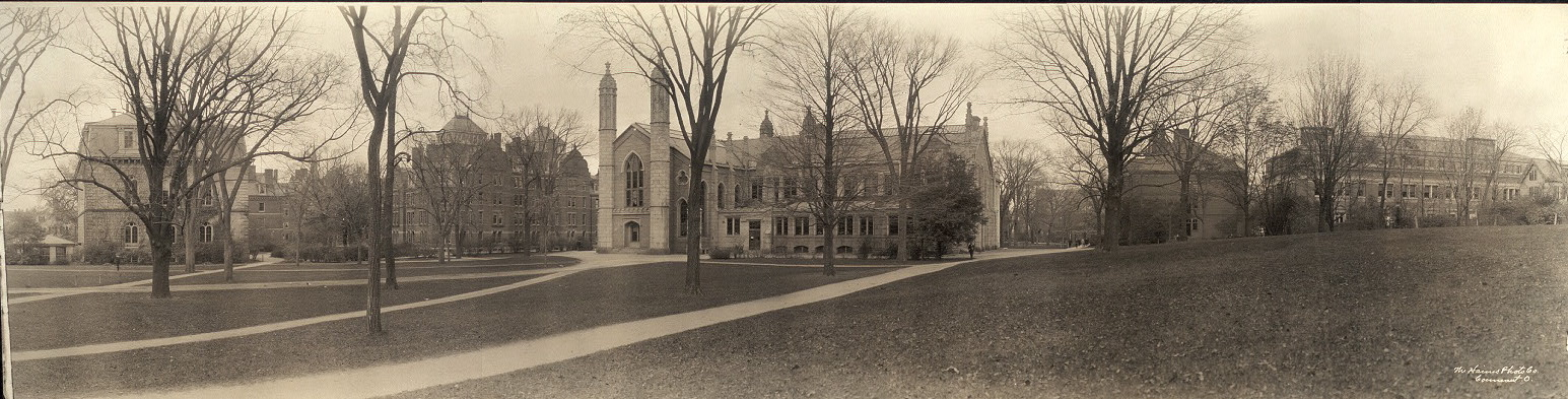 Harvard University #2, Cambridge, Mass.